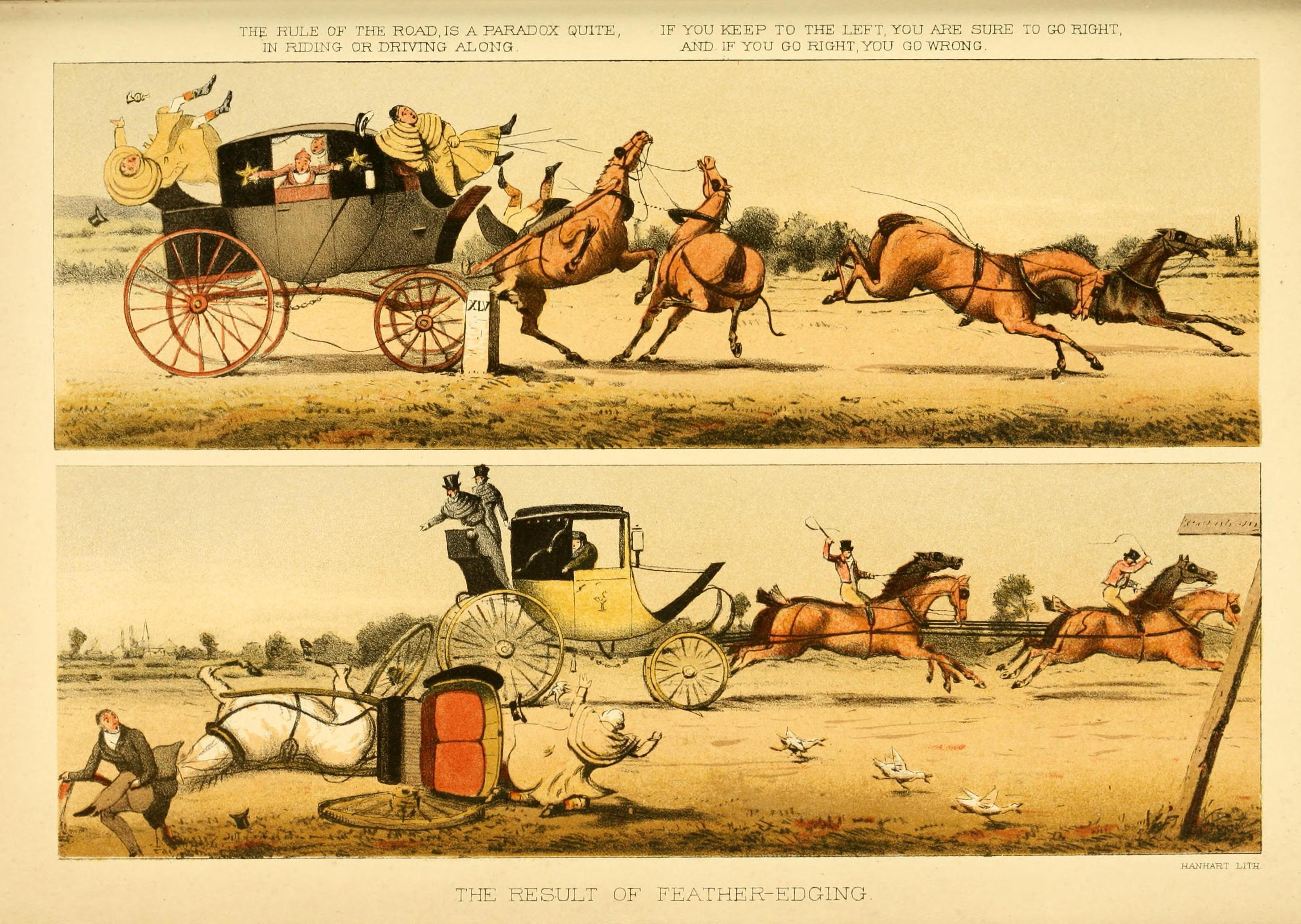 The result of feather edging Title: Annals of the road : or, Notes on mail and stage coaching in Great Britain Year: 1876 (1870s) Authors: Malet, Harold Esdaile; Nimrod, 1778-1843 Subjects: Horses; Coaching (Transportation) -- England; Roads -- Great Britain Publisher: London : Longmans, Green, and Co. Text Appearing Before Image: ' Text Appearing After Image: o % Q W k w 5: w Ft, o g w